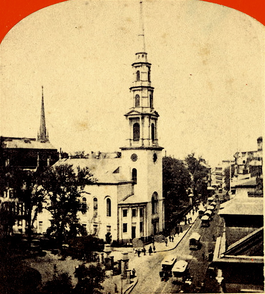 Accession No.: 06_11_000042 Title: Park Street Church Local Subject: Churches Subject: Boston (Mass.) Publisher: Bailey & Co. Format: Derived from stereograph BPL Department: Print